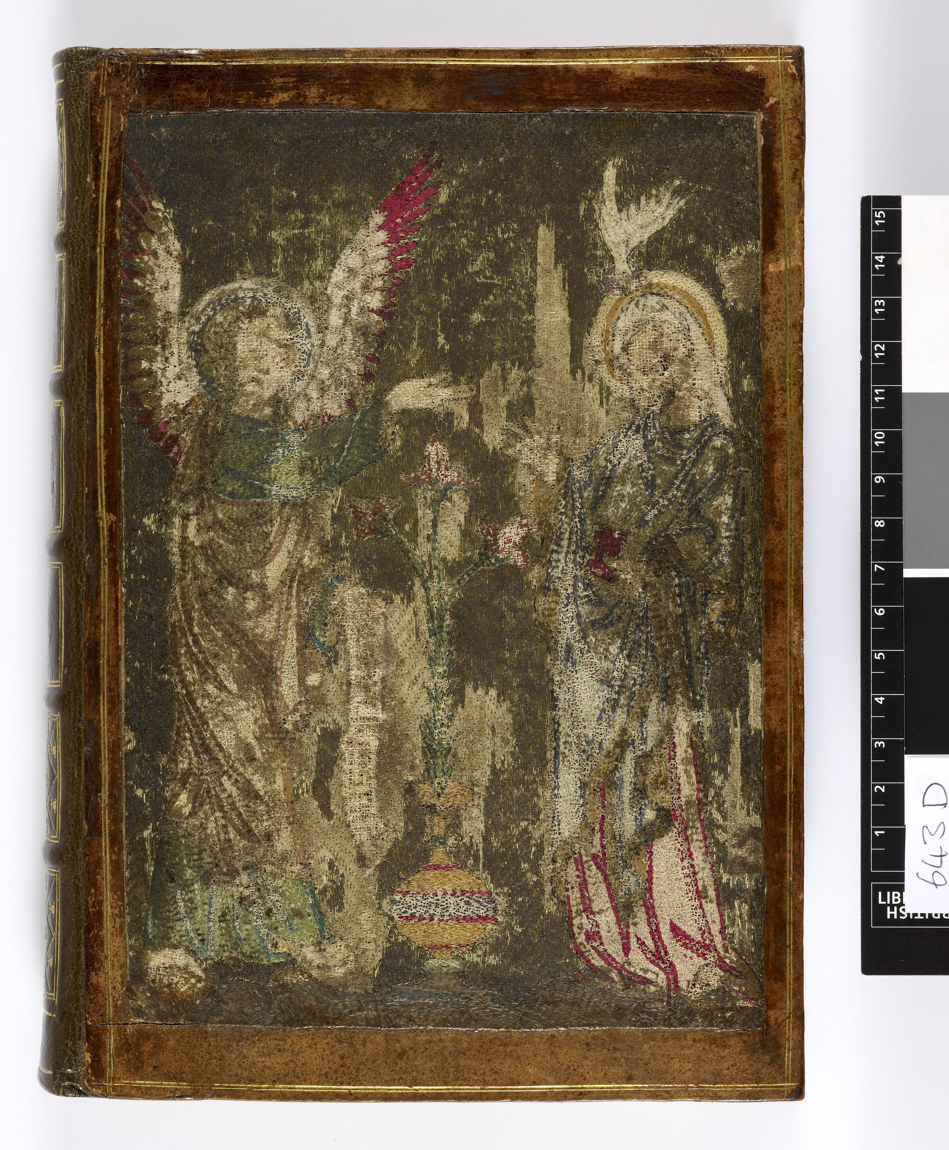 Style: Religious miscellaneous; Caption: Upper cover; Colour: Unspecified; Edge: Unspecified